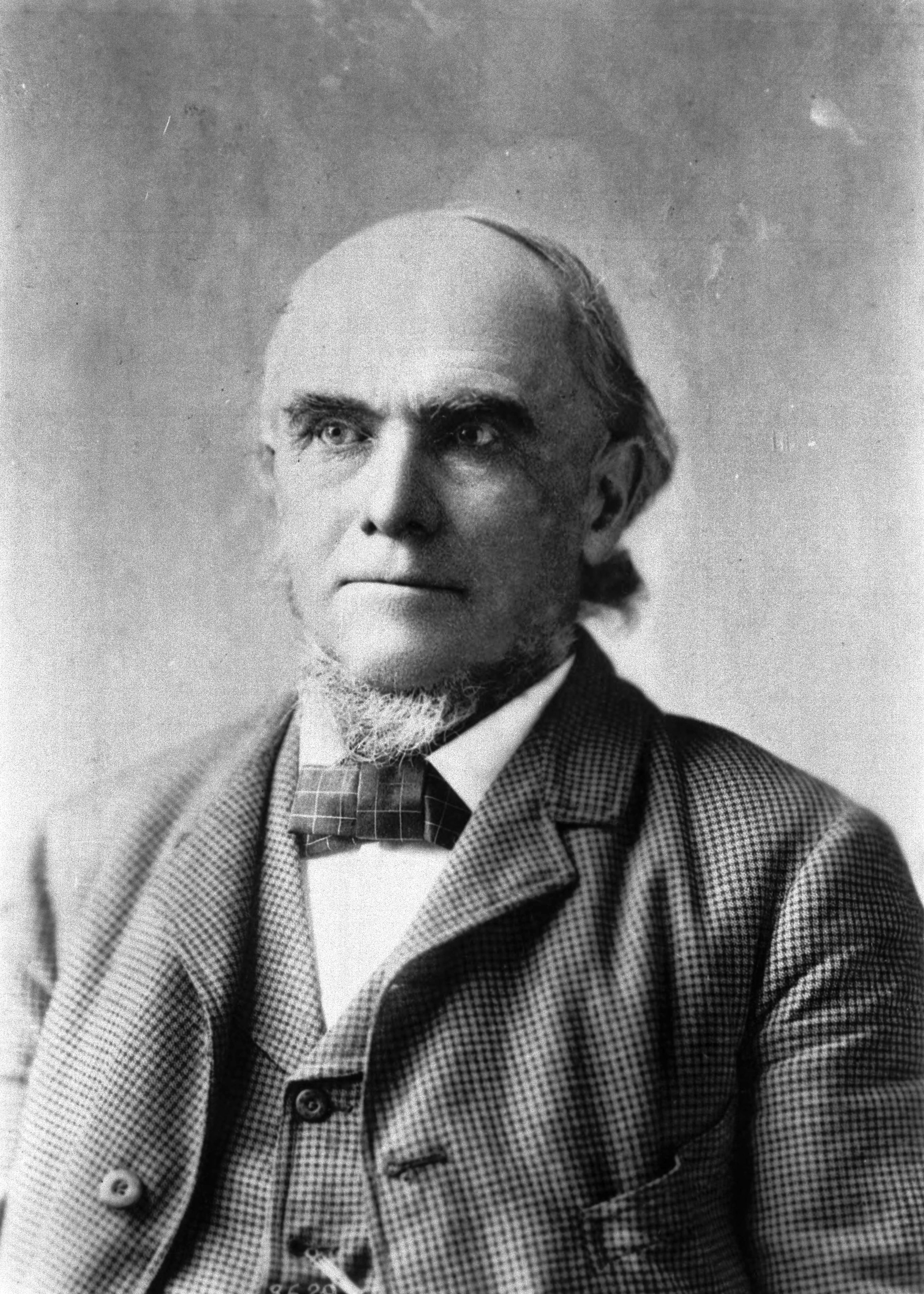 Photographic portrait of Dr. David S. Burbank, dentist and founder of Burbank, California.